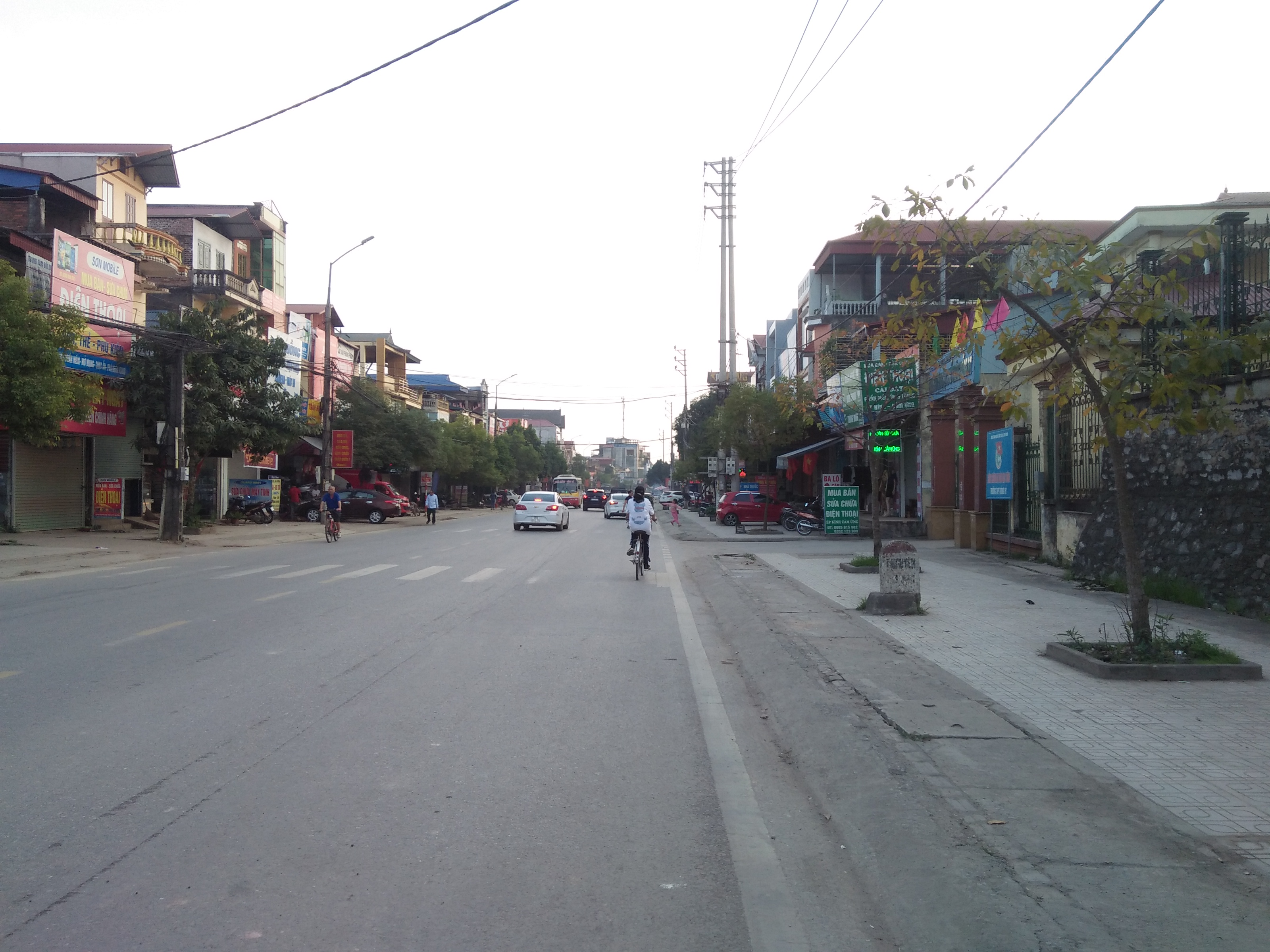 Một góc phố huyện Đồng Hỷ